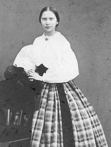 Louise Bernadotte late queen of denmark